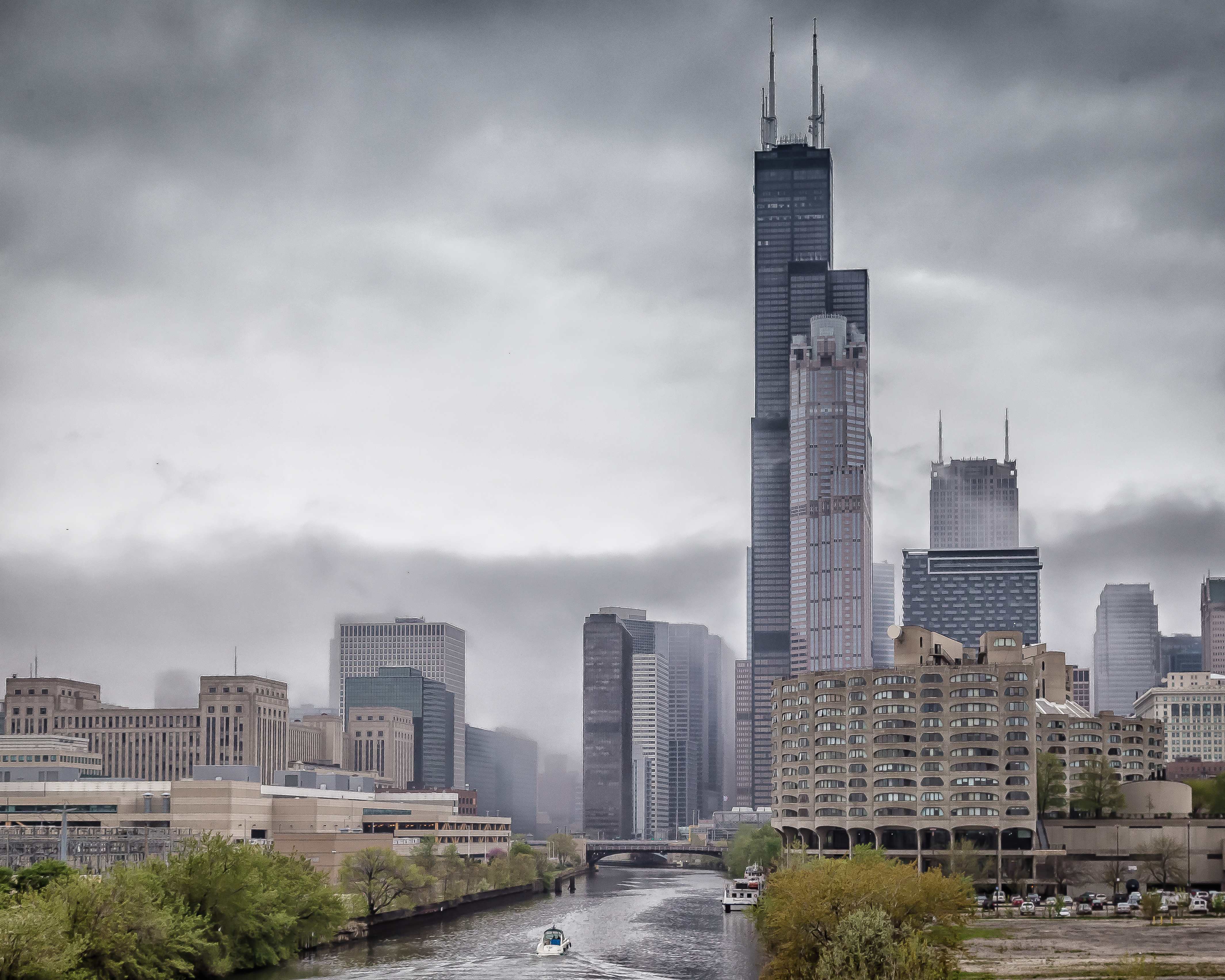 Chicago